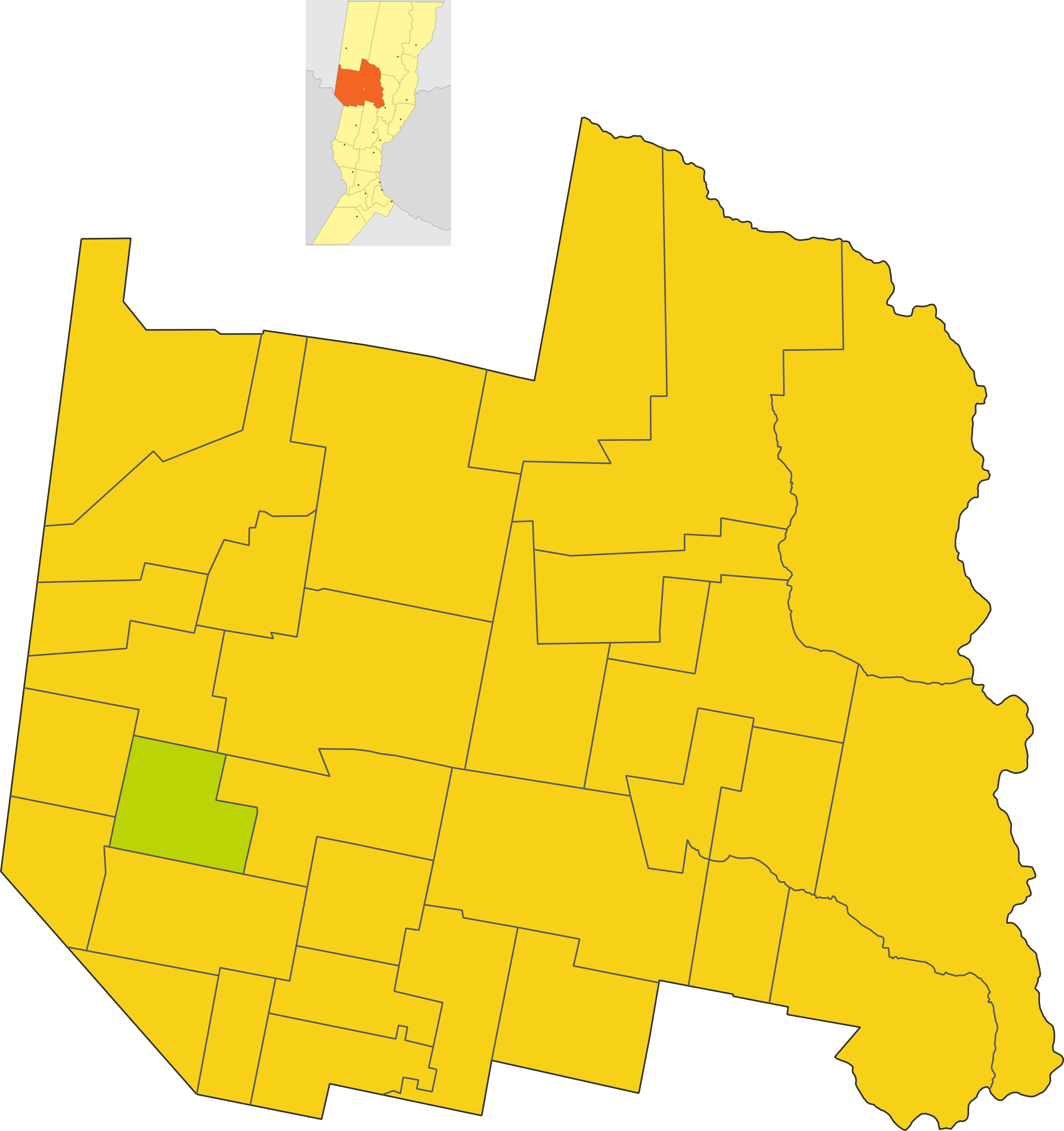 Map of the comuna de San Guillermo in san Cristobal department, Santa Fe province, Argentina